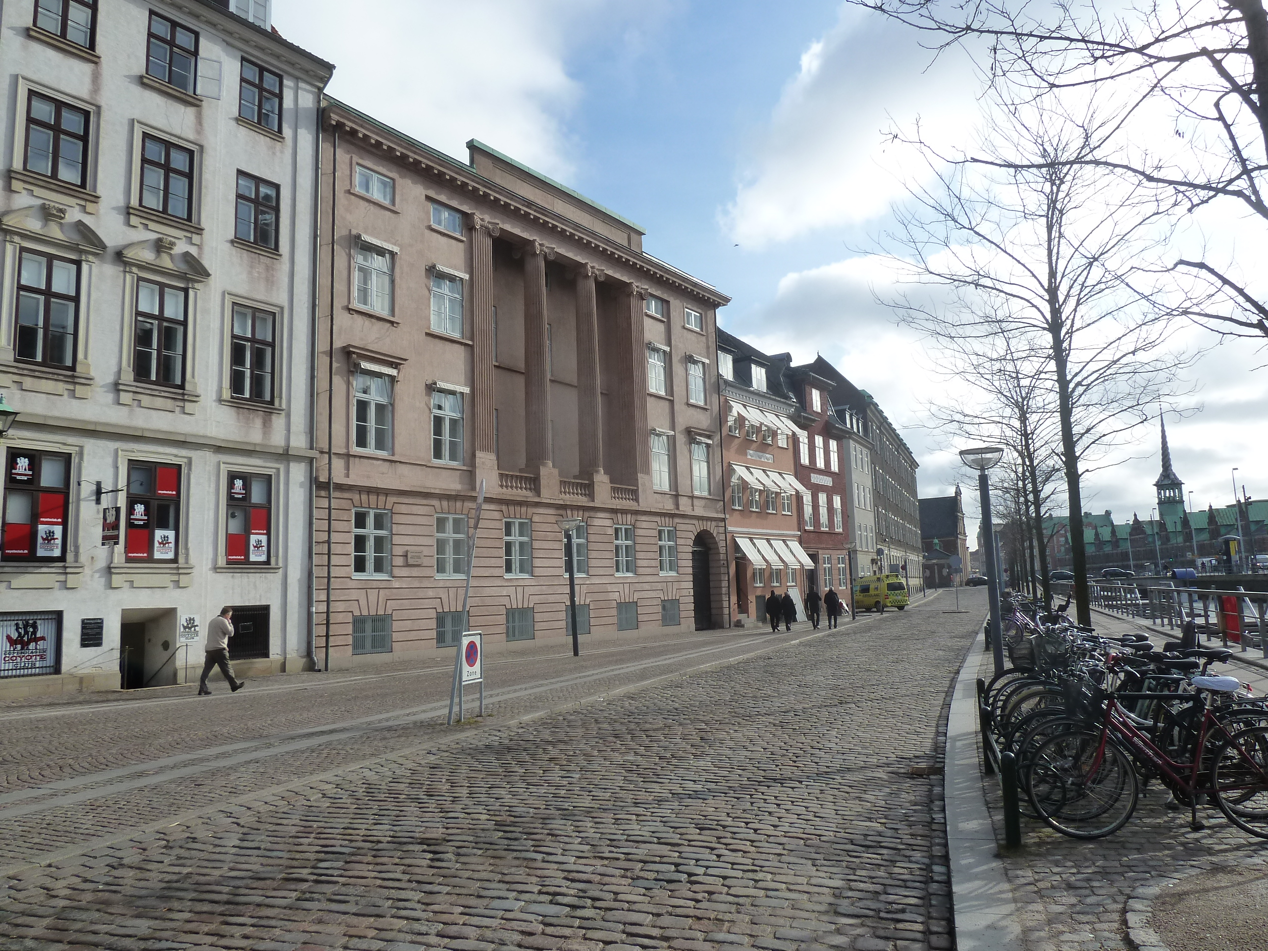 The street Ved Stranden in Indre By in Copenhagen.